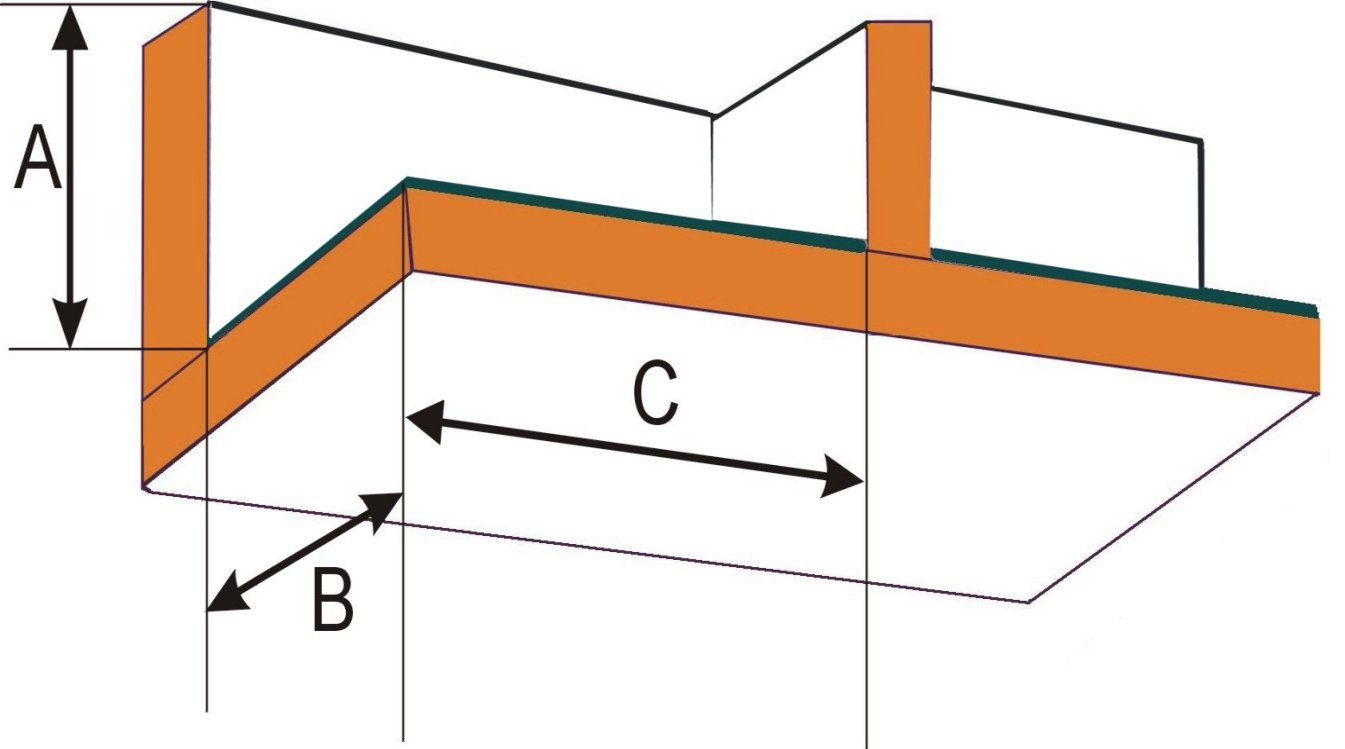 Shelf for House Martins Delichon urbica